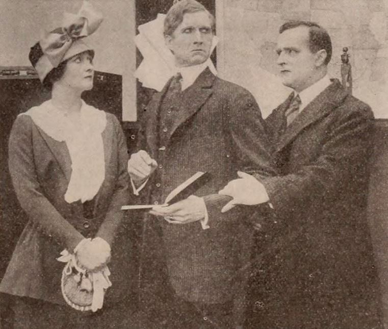 Still from the American drama film The Food Gamblers (1917) with Hedda Hopper, Wilfred Lucas, and an unidentified actor, on page 25 of the August 25, 1917 Exhibitor's Herald.